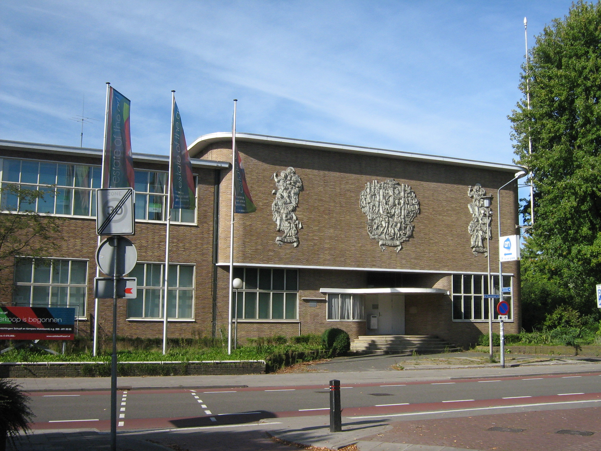 Former studio of broadcaster KRO house at 52 Emmastraat, Hilversum, the Netherlands. This is a national monument registered as object 512602.